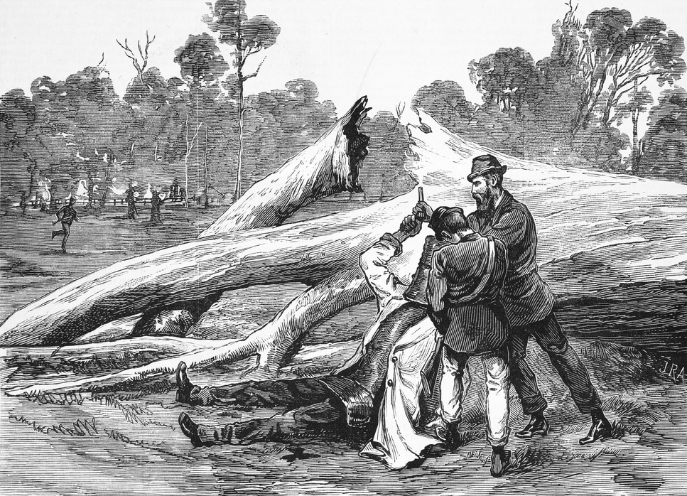 "The capture of Ned Kelly", wood engraving, printed in The Illustrated Australian News.